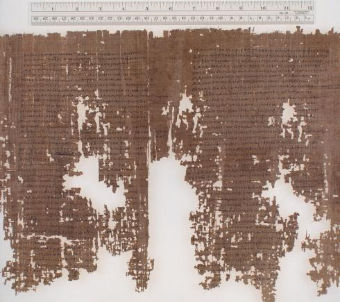 The image is taken from the University of Michigan's collection and is out of copyright. I also have permission from the director of the Papyrus Collection to use images from the collection for the Wikipedia entry. P. Mich. inv. 2755, copy of Iliad XVIIIю